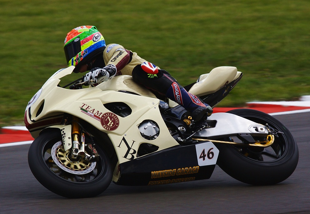 Tommy Bridewell riding a NB Suzuki during the 2009 British Superbikes races, BSB, at Snetterton